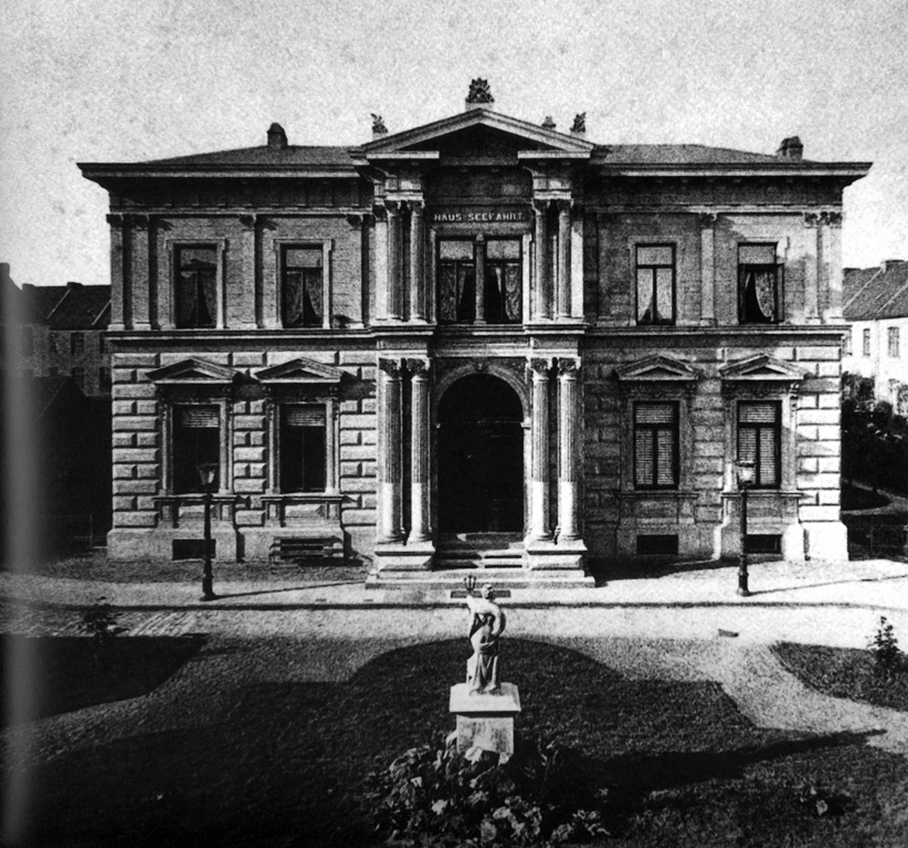 The Haus Seefahrt in Bremen, Germany. Built 1874–76 and destroyed 1944.